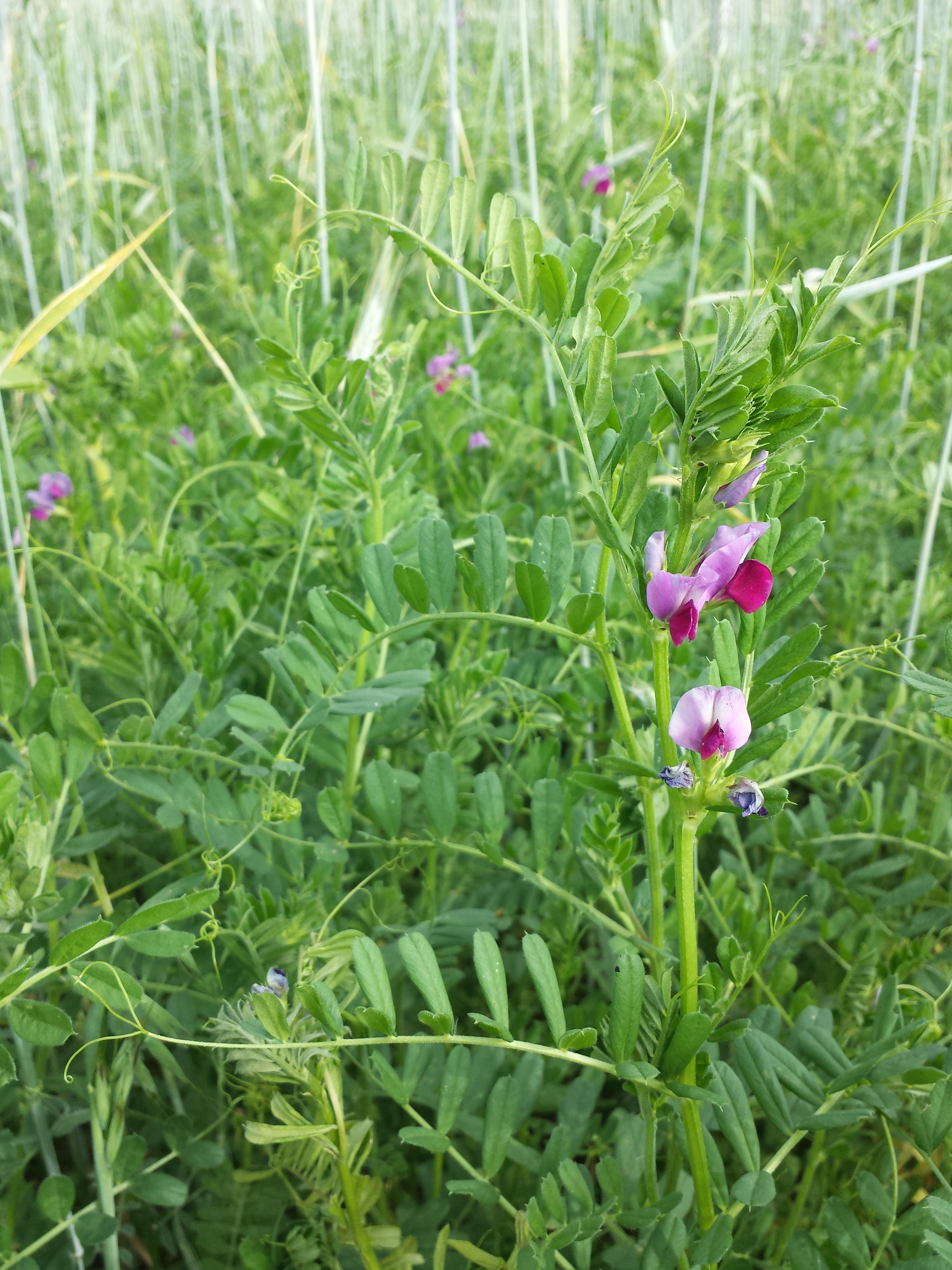 Habitus Taxonym: Vicia sativa ss Fischer et al. EfÖLS 2008 ISBN 978-3-85474-187-9 Location: Altenberg north of Nursch, district Korneuburg, Lower Austria - ca. 350 m a.s.l. Habitat: grainfield (cultivated)